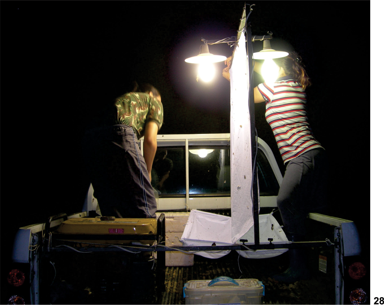 An insect trap mounted onto a pick-up truck.